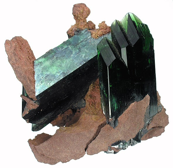 Vivianite Locality: Tomokoni mine, Machacamarca District (Colavi District), Cornelio Saavedra Province, Potosí Department, Bolivia (Locality at ) Size: 4.6 x 4.5 x 3.1 cm. This mine has produced what are clearly some of the finest quality Vivianite specimens ever seen. This miniature size piece features absolutely beautiful, superb quality, HIGHLY lustrous, gemmy emerald green; sword shaped "textbook" crystals of Vivianite with minor metamorphosed Sandstone. These are some of the best quality Vivianite crystals you will see from any locality, hands down. This piece is virtually undamaged and is one of the gemmiest I’ve seen from the find. I have never seen specimens of this quality, color, luster and gemminess before, not only from Bolivia, but virtually any world locality.